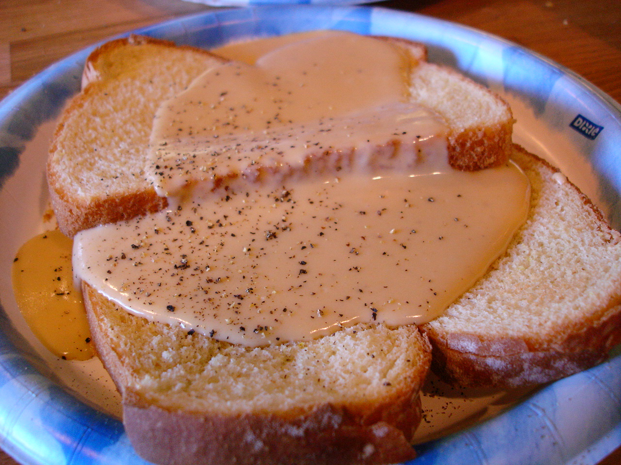 Welsh Rarebit from Alton Brown